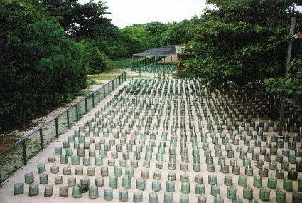 A picture of a breeding place for turtle eggs on Turtle Island National Park